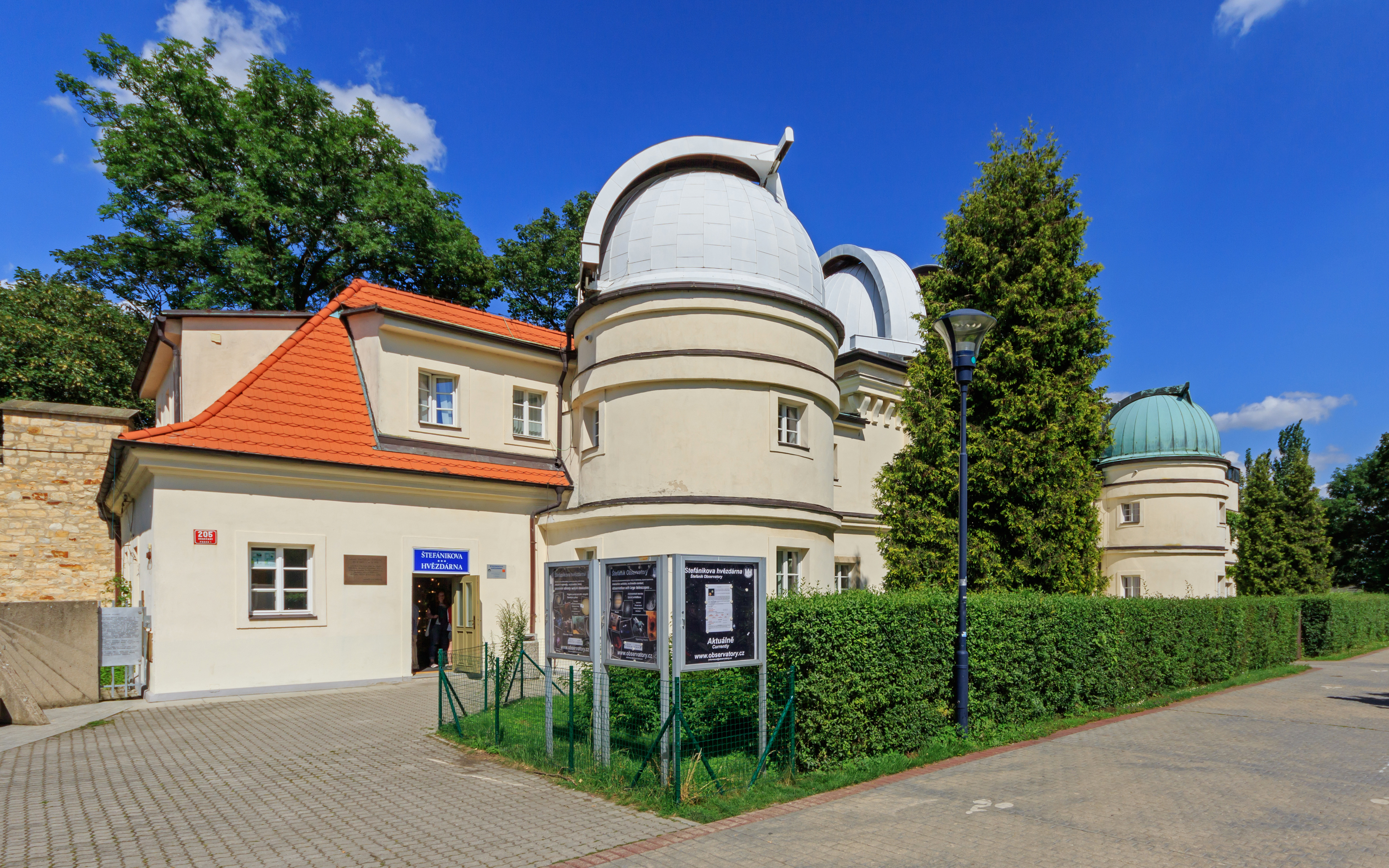 Štefánik's Observatory in Prague (Czech Republic)